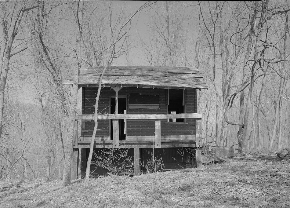 West elevation of Jerome operator's cabin. - Western Maryland Railway, Cumberland Extension, Pearre to North Branch, from WM milepost 125 to 160, Pearre, Washington County, MD.